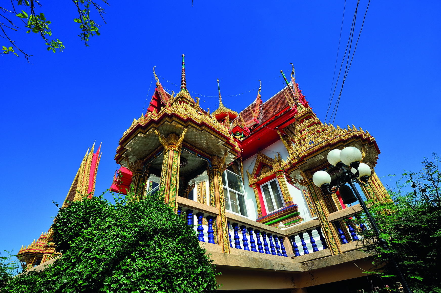 Located in Ta Luk sub-district, Sapphaya district, this temple is over a hundred years old. It is presumed that it was built in 1847. The temple features highly valuable national historical heritages such as the belfry, 2 temple halls, 3 viharas, ancient Chinese pavilion, ancient pagoda decorated with Buddha image in King Ramathibodi I era and the most famous one is a wooden library called “Ho PhraTripitaka” constructed by then the abbot “Luang Pu Um”. The library is 8 metres wide and 9 metres long, situated in the middle of a pond. It serves as a storeroom for a large number of palm-leaf Tripitaka scriptures written in ancient Cambodian (Khmer) language. The temple has long been a well-known Pali language institute.